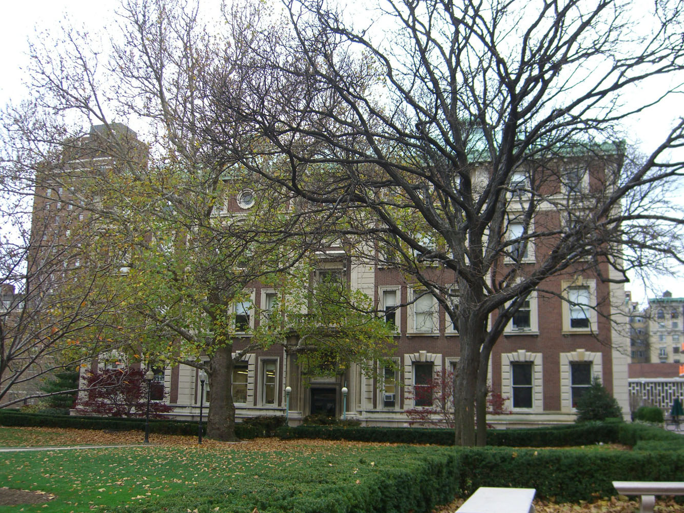 The mathematics building at Columbia University.